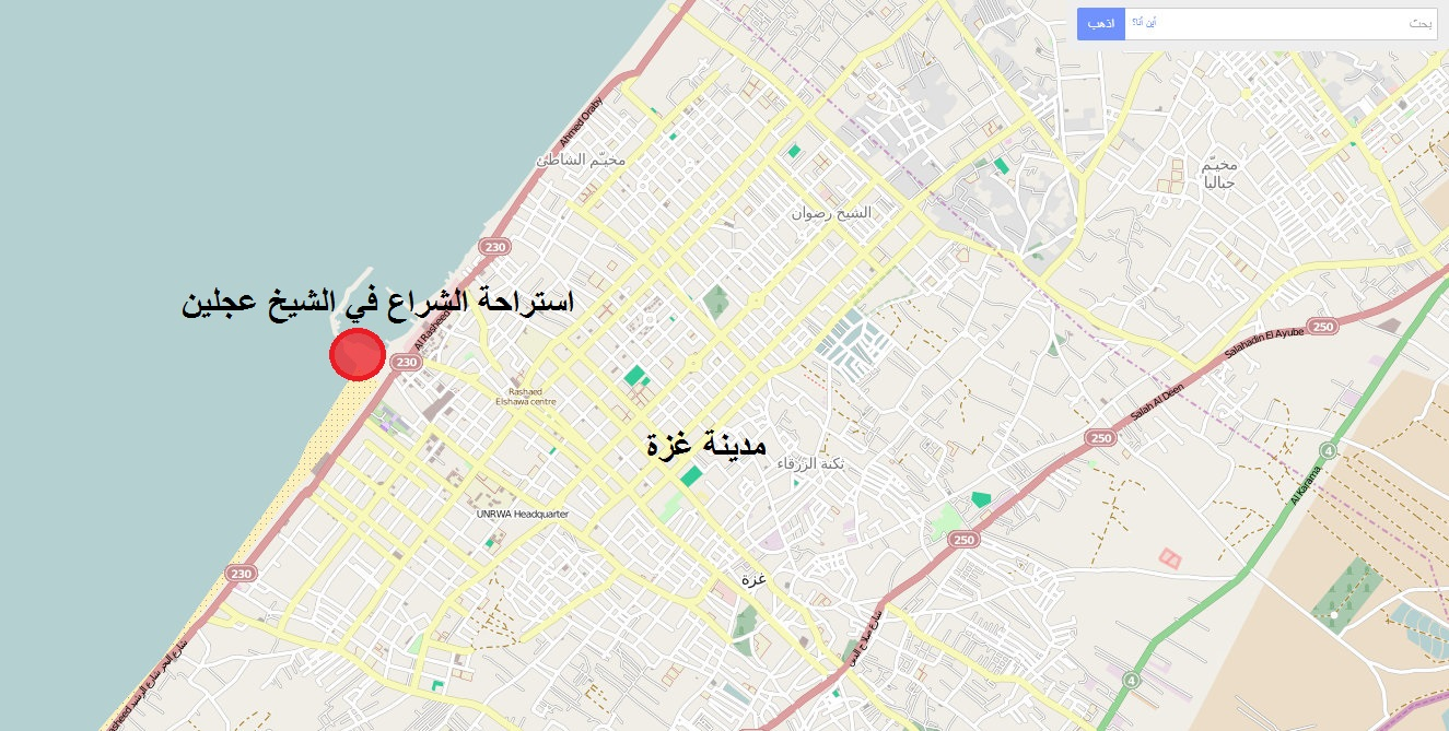 Al.sheikh Ejleen 16.7.2014 This map may be incomplete, and may contain errors. Don't rely solely on it for navigation.